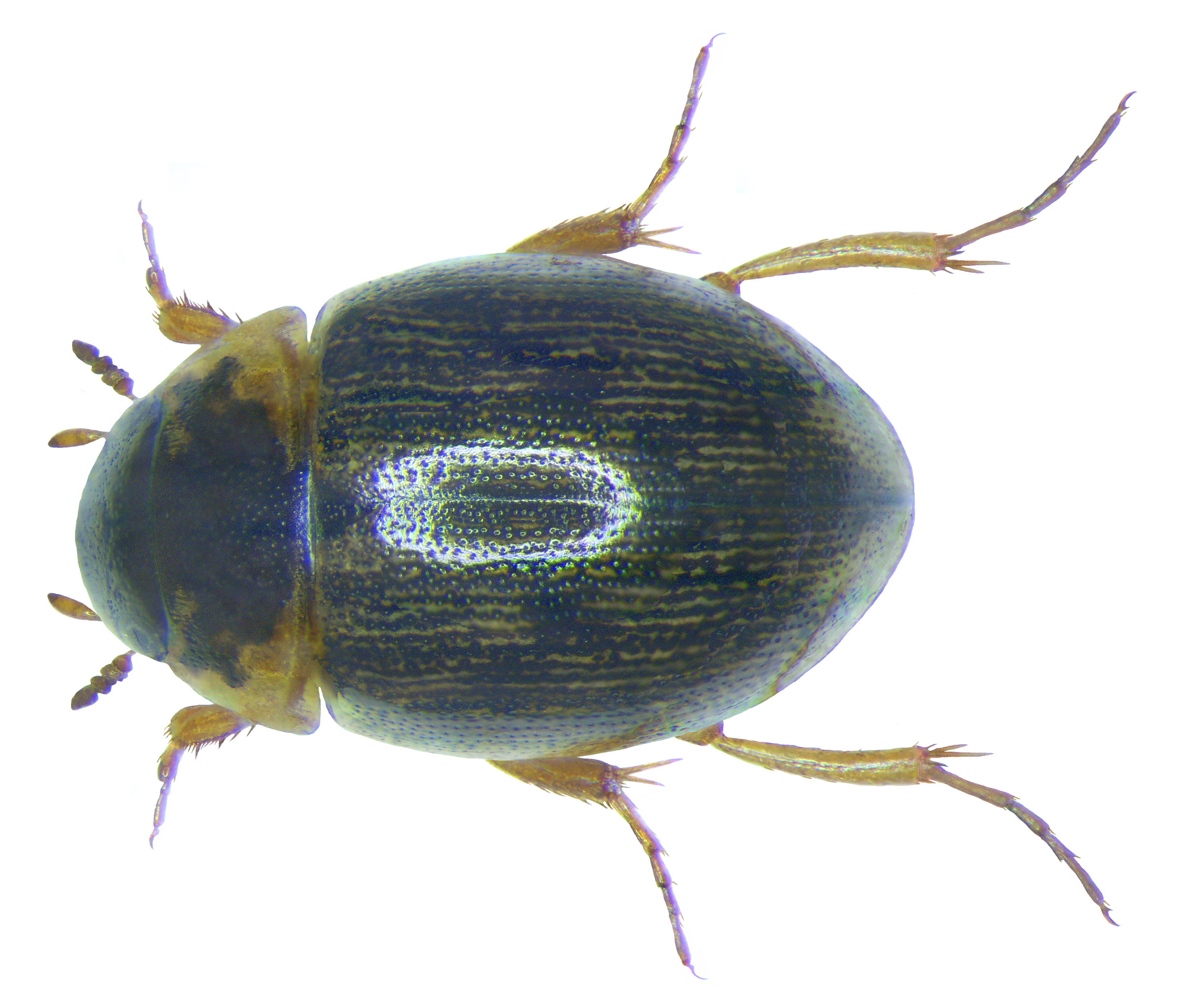 Laccobius bipunctatus, a beetle in the family Hydrophilidae